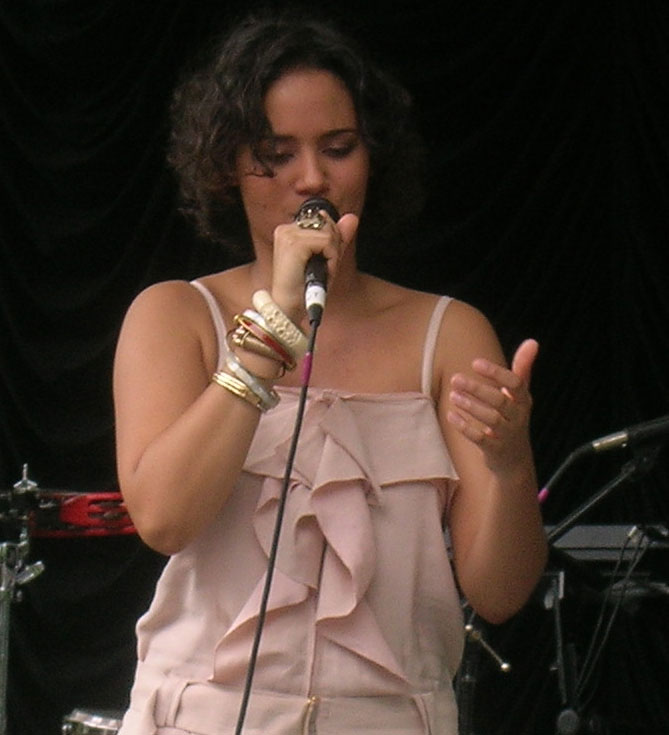 Mayra Andrade performing in Central Park